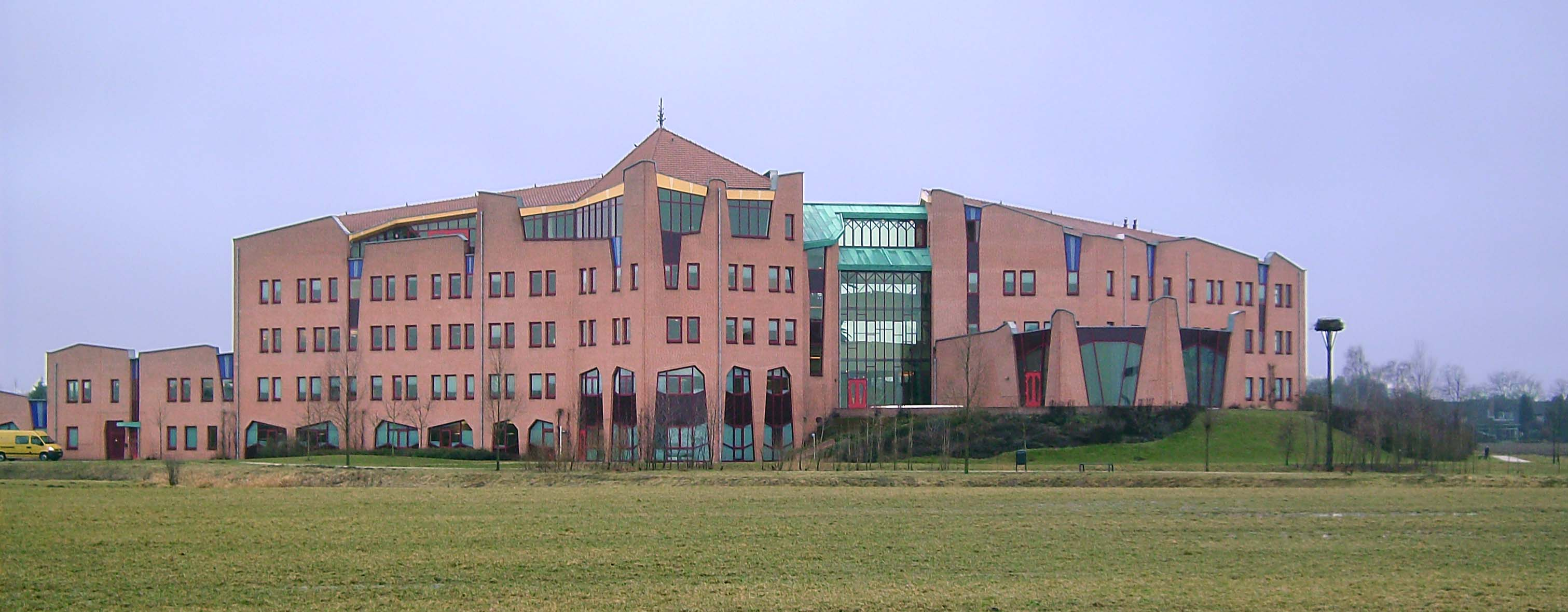 Town hall of Buren municipality (in the village Maurik), The Netherlands. Architecture by Ton Alberts and Max van Huut.